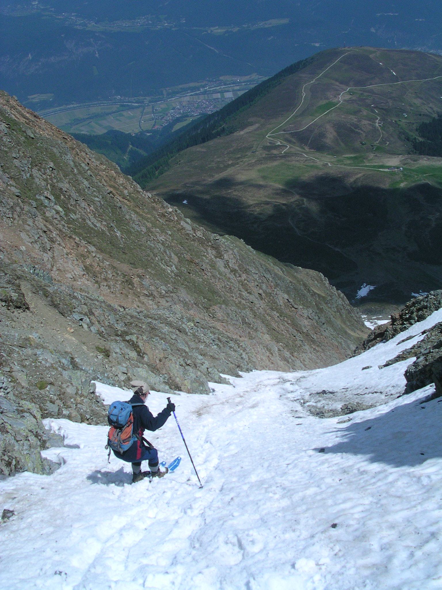 Firngleiten at Roßkogel (2646 m) in Tyrol, Austria